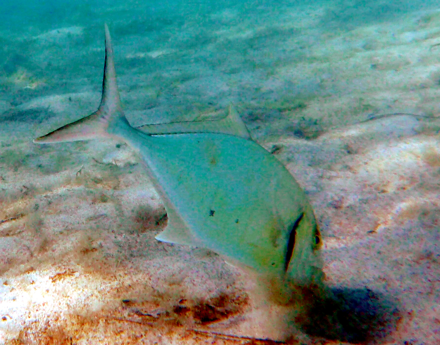 Taken at Shark Bay, 2009